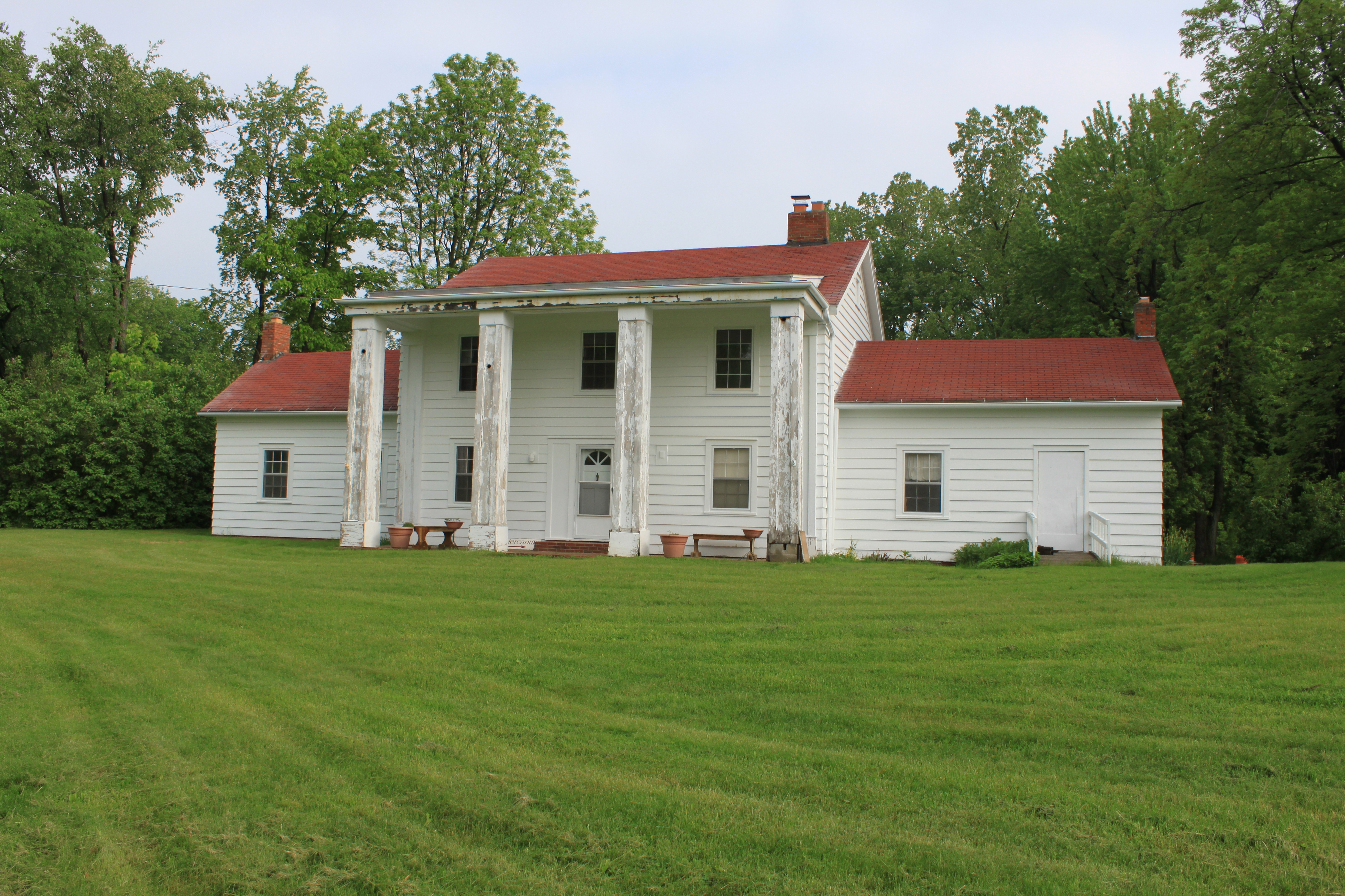 Hewitt House Visitor Center, Cambridge Junction Historic State Park, Brooklyn, Michigan